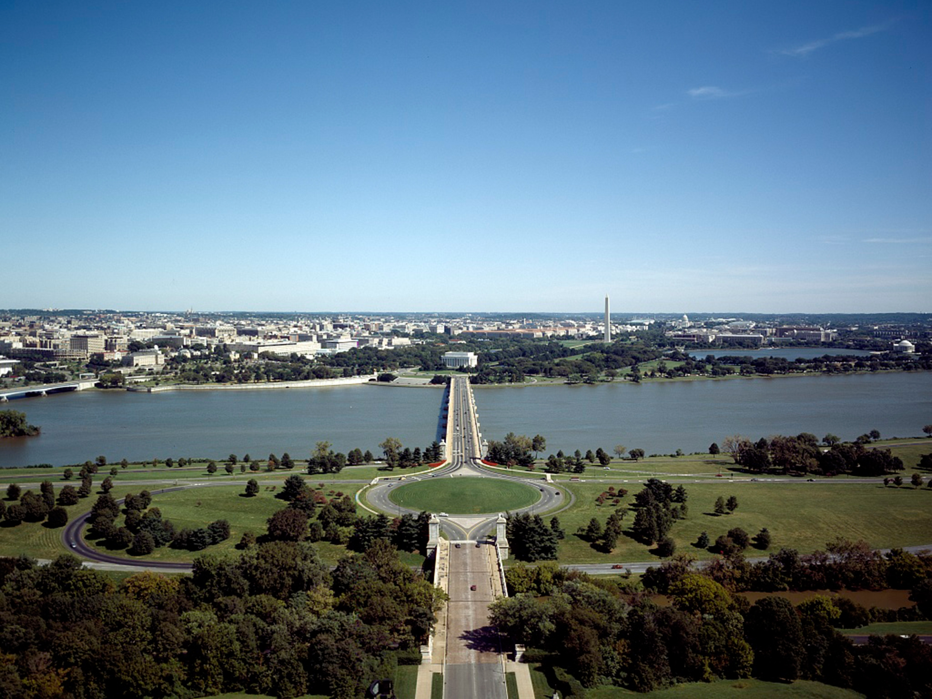 Looking east at the traffic circle and plaza on the north end of Columbia Island in the Potomac River in Washington, D.C., in the United States. Columbia Island is part of the District of Columbia. In the lower foreground is the Boundary Channel Bridge, with the two memorial pylons. The George Washington Memorial Parkway flows across and along the island, using the traffic circle as an interchange to Arlington Memorial Bridge and Arlington National Cemetary. Stretching into the distance is the Arlington Memorial Bridge, finished in 1932. The Lincoln Memorial, Watergate Steps, and Washington, D.C., can be seen on the far shore.